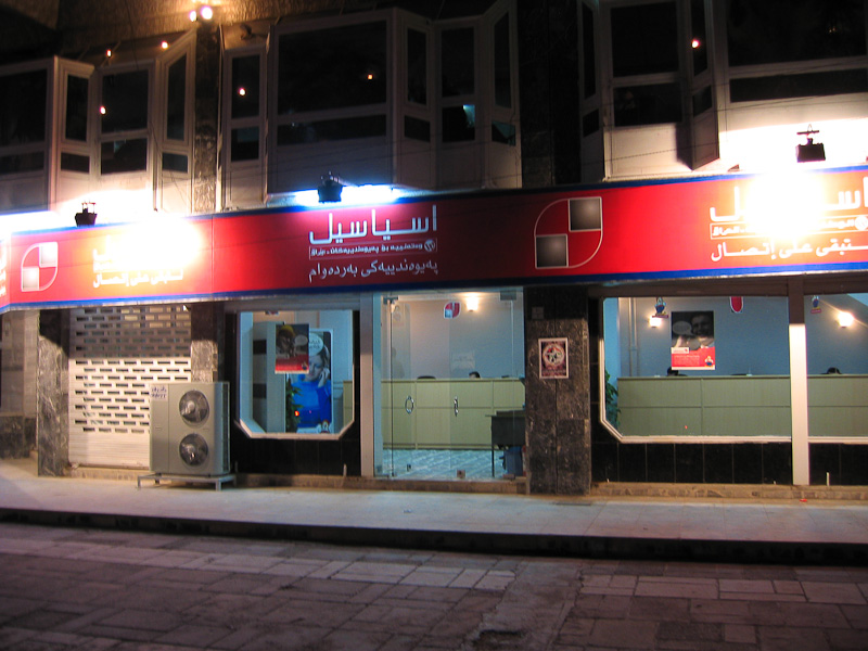 An Asia Cell shop in Sulaimaniya, Northern Iraq in 2004.